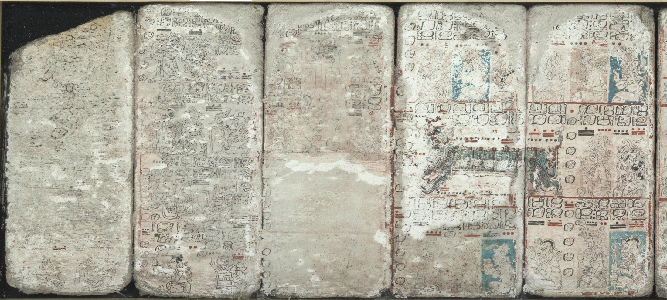 The first five pages of the Dresden Codex (pp. 1-5)